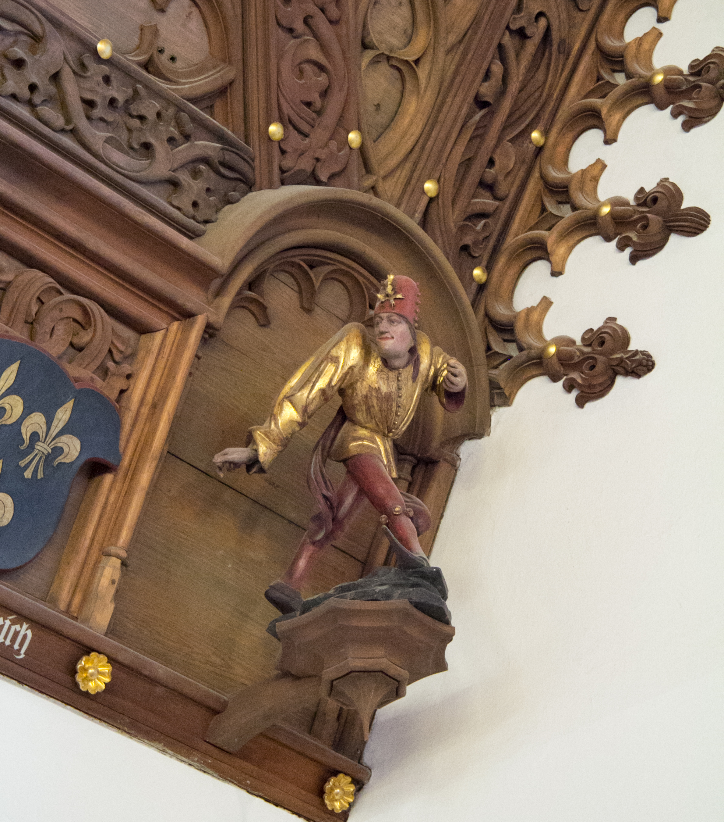 Copies of figures of morisco dancers in the old town hall of munich. They were created by Erasmus Grasser.